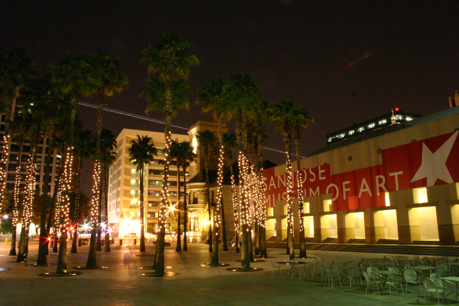 The Circle of Palms (historical marker for the site of the first state capitol of California) and the San Jose Museum of Art at night; the white line in the sky is an airliner on approach to San Jose International Airport